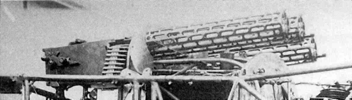 Triple mount of lMG 08 "Spandau" machine guns on a Fokker E.IV, reportedly flown by Kurt Wintgens in late spring of 1916